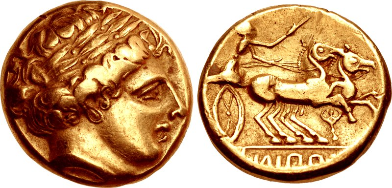 CENTRAL EUROPE, Helvetii(?). Early-mid 3rd century BC. AV Stater (17mm, 8.28 g, 8h). Imitating Philip II of Macedon. Gamshurst type. Head of Apollo right, wearing laurel wreath / [Φ]IΛIΠΠ[OY], charioteer, holding kentron in right hand, reins in left, driving biga right; kantharos below.